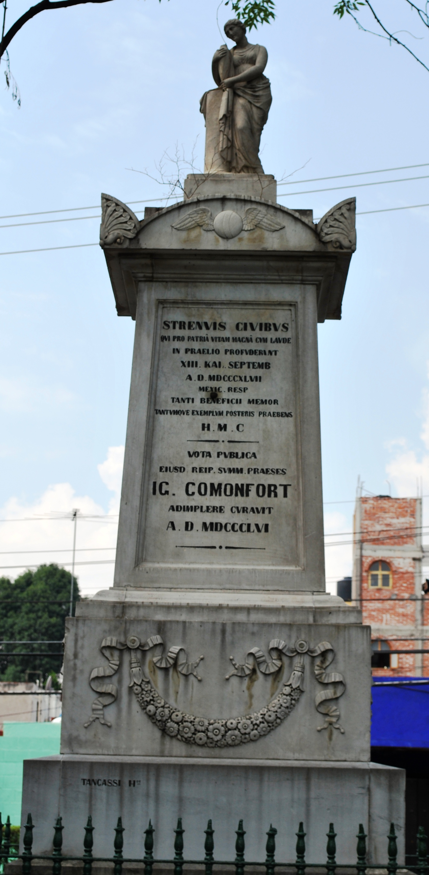 Monument in front of the Museo Nacional de las Intervenciones (ex Monastery of Churubusco) in the Coyoacan borough of Mexico City